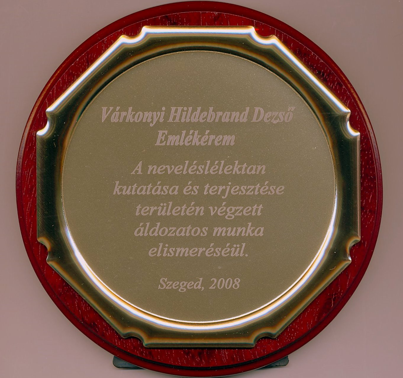 Medal of Várkonyi Hildebrand Dezső